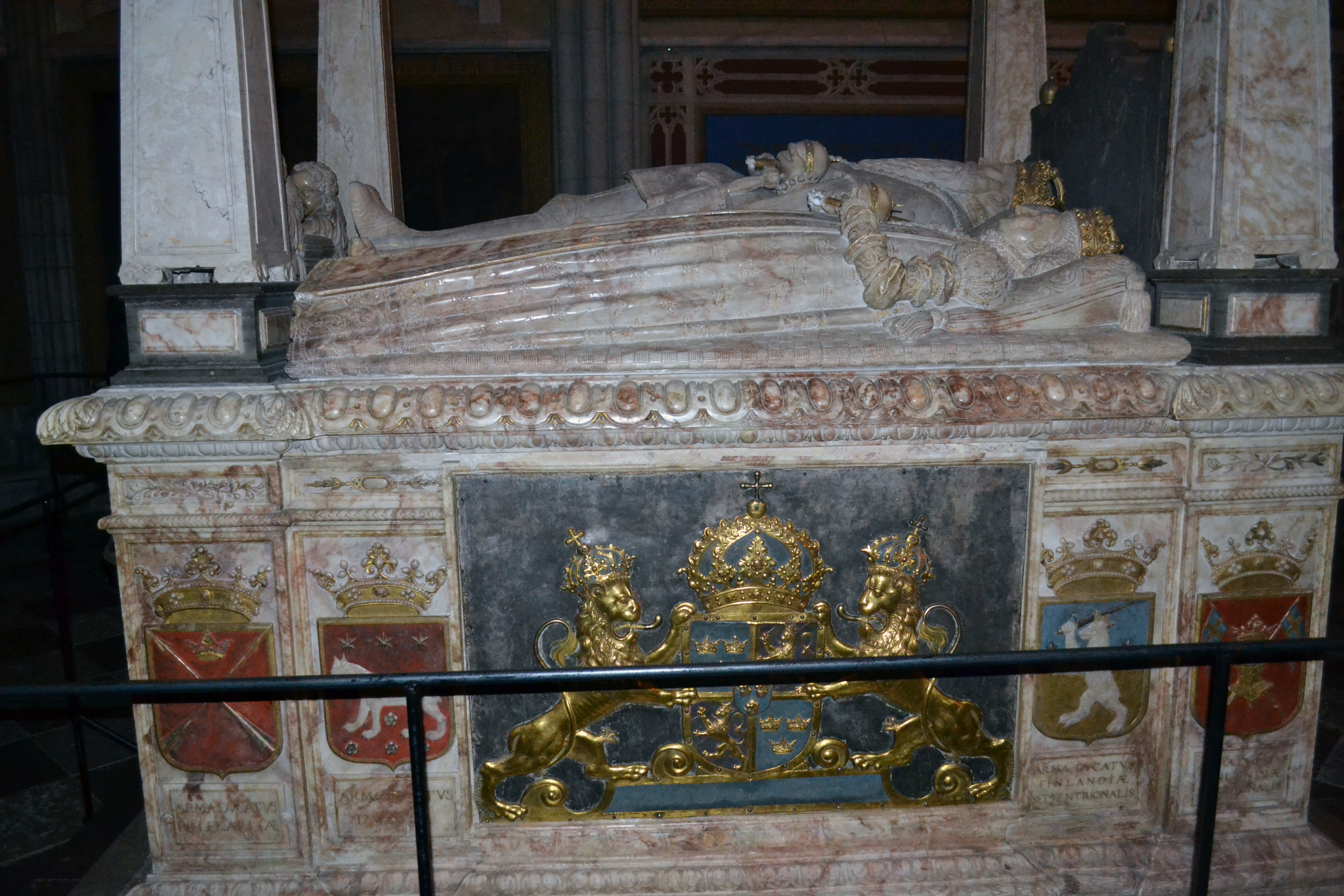 The tomb of the Swedish king Gustav Vasa in Uppsala Cathedral